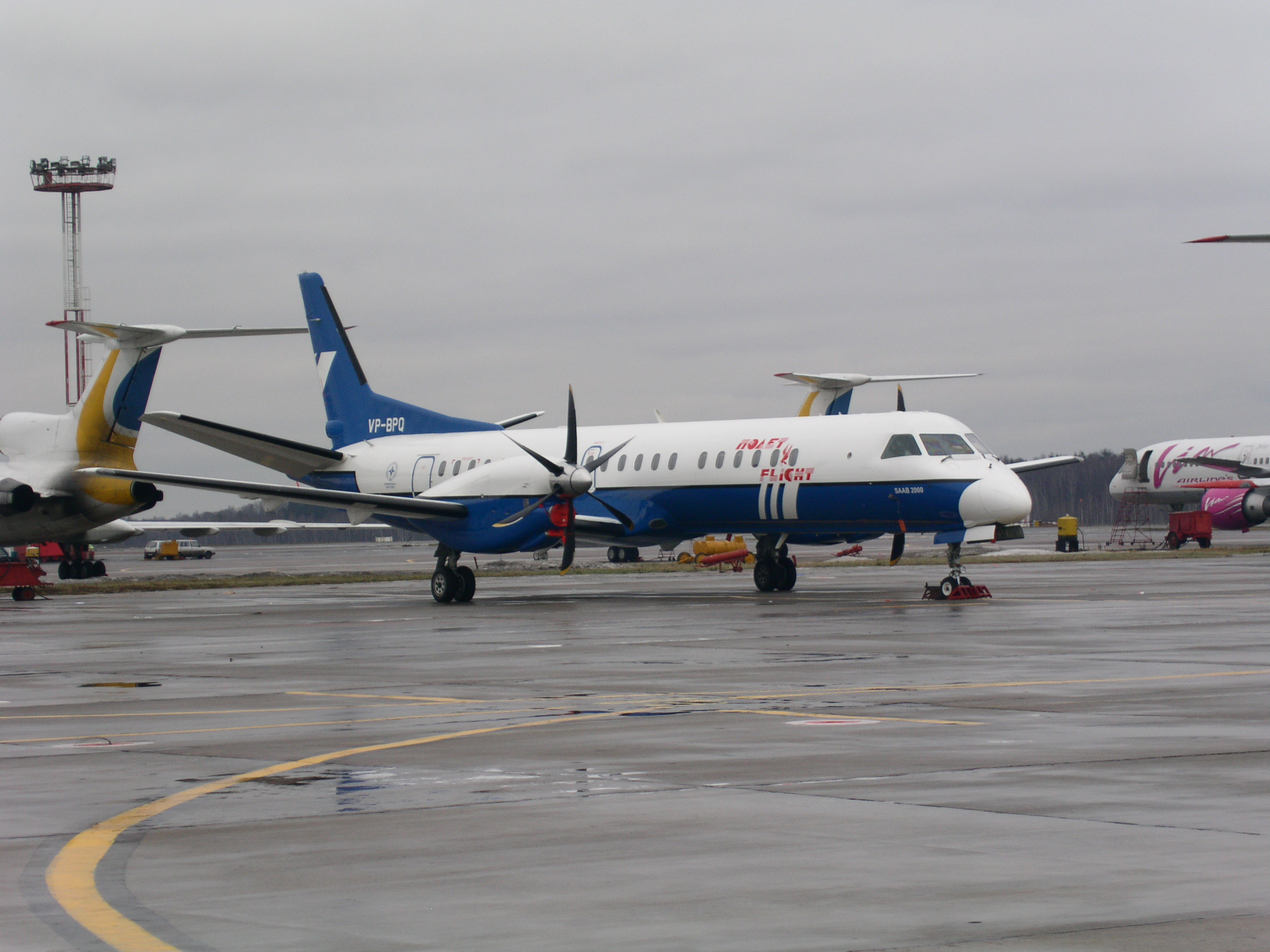 Polet Saab 2000 in Domodedovo Intl. Airport. VP-BPQ (cn 2000-060)